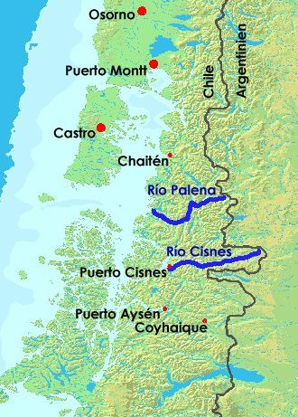 Map of Chile. Situation of Río Cisnes and Río Palena in Aysén-Region